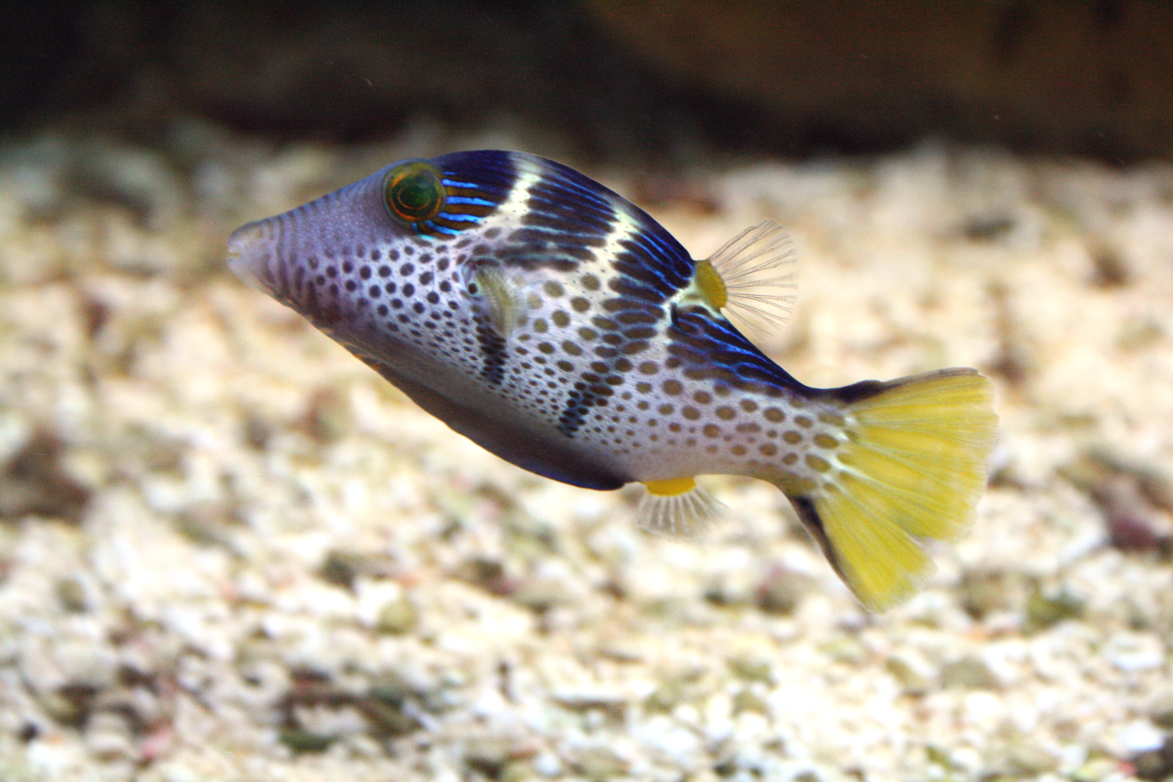 Fish Valentinni's sharpnose puffer Canthigaster valentini in Prague sea aquarium, Czech Republic